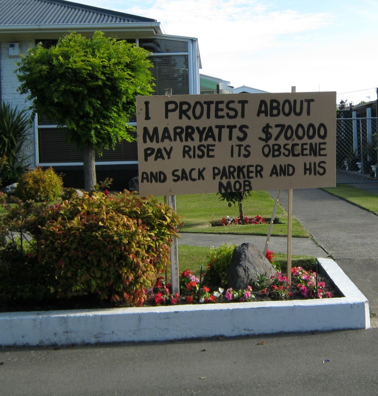 A resident protesting about Tony Marryatt's pay rise (CEO of Christchurch City Council), with the sign making reference to mayor Bob Parker and city councillors.